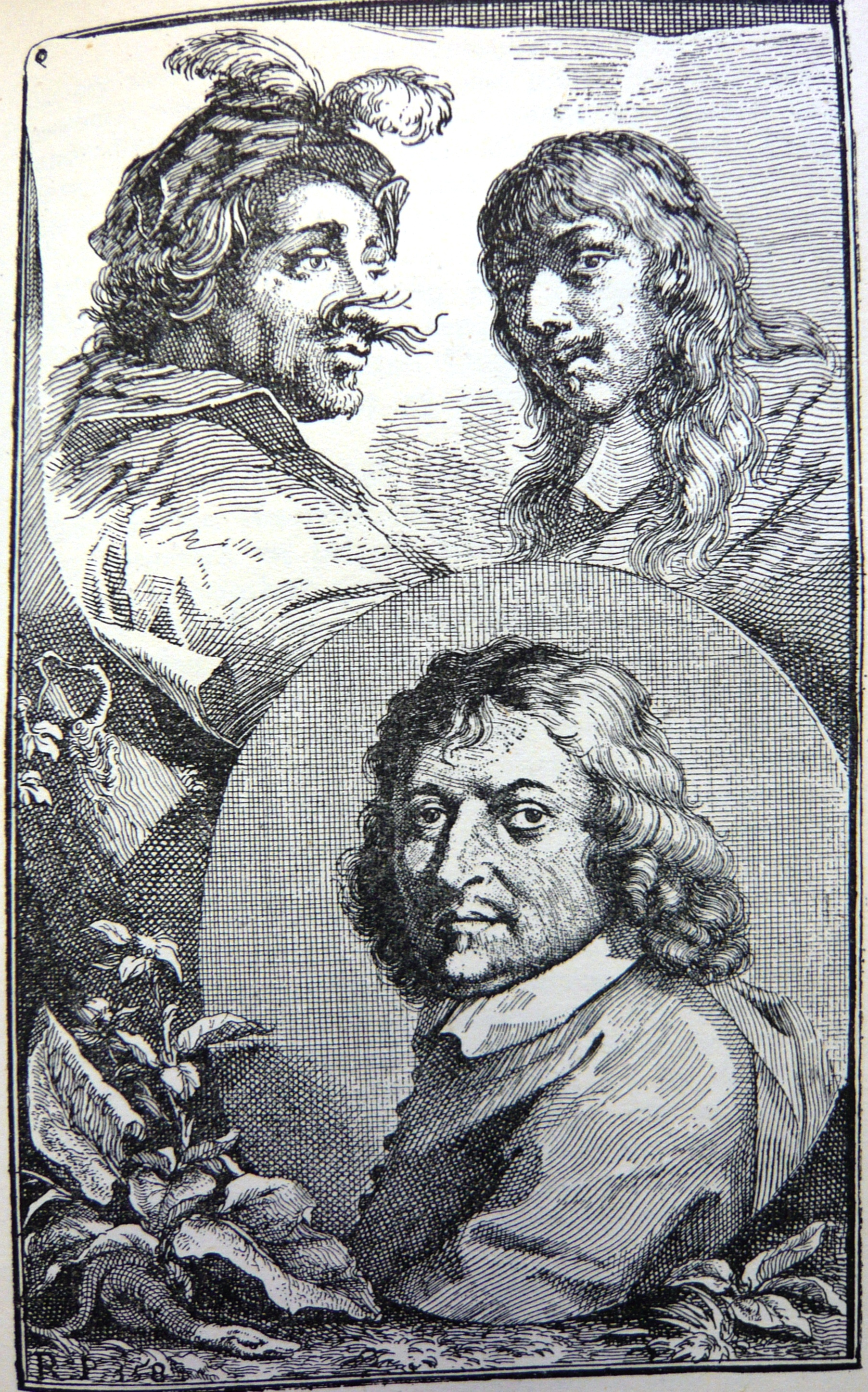 Schouburg Part 1 Plate R Otto Marseus van Schriek,Pieter van Laer and Nicolaes van Helt Stockade, Page 358 of Part 1 of Arnold Houbraken's Schouburg from 1718